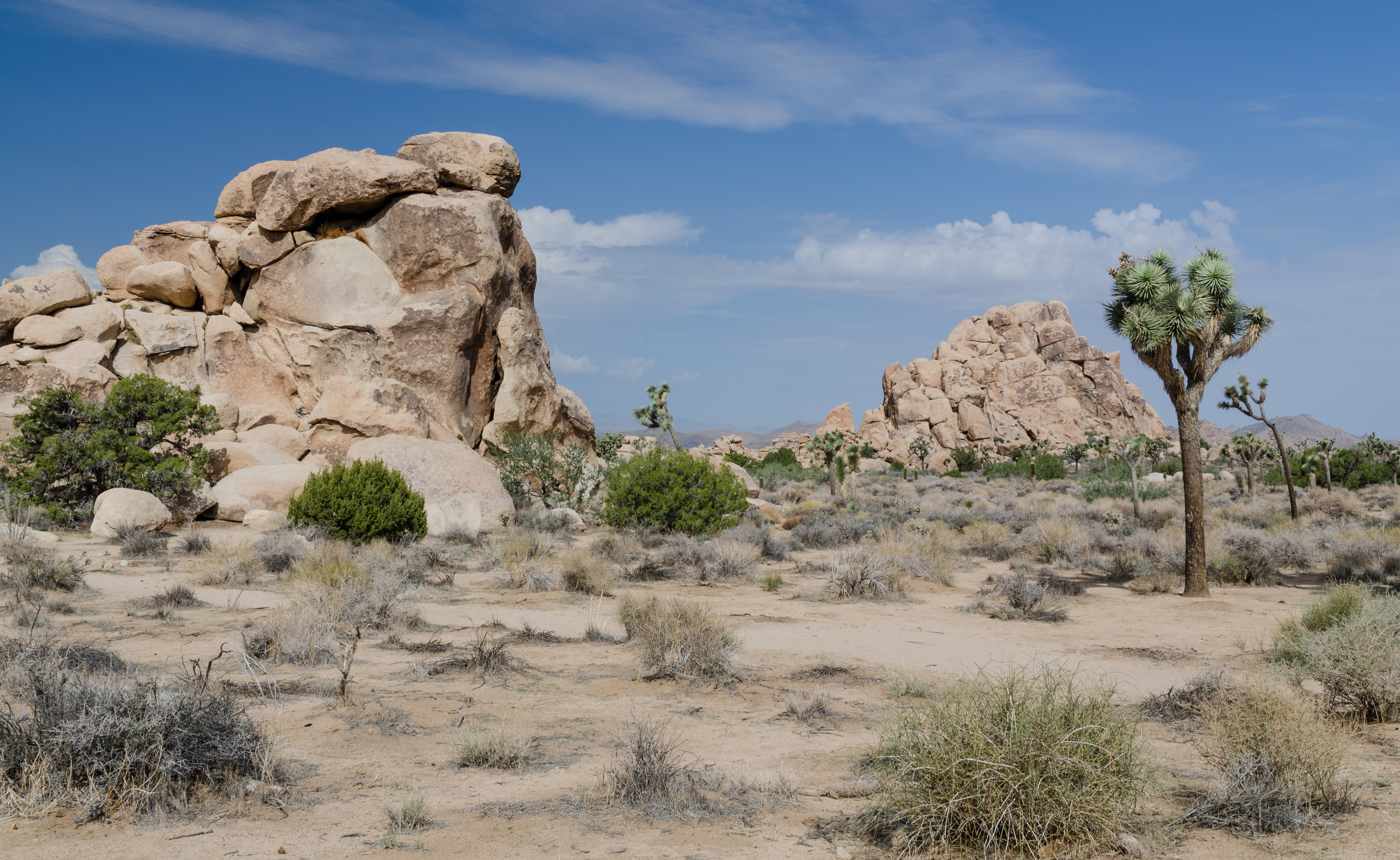 Typical view of Joshua Tree National Park with impressive rocks and Joshua trees (Yucca brevifolia). The photo is taken from the parking lot close to the Banana Cracks Formation